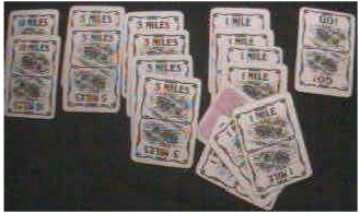 Tableau of 1906 edition of Touring